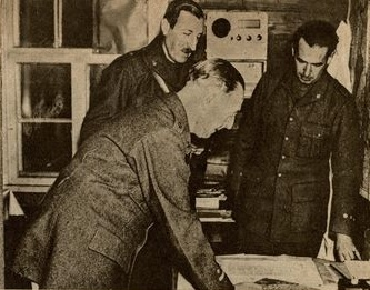 Colonel Arthur Nordensvan, Lieutenant Colonel Carl August Ehrensvärd and Captain Malcolm Murray around the chart table.